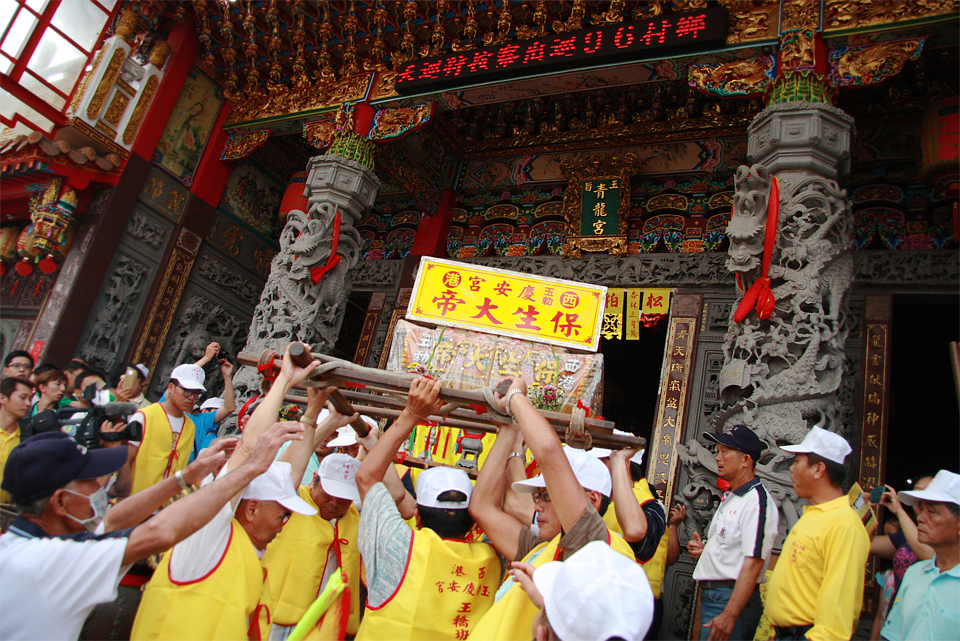 西港香請大道公